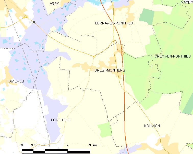 Map of French municipality Forest-Montiers